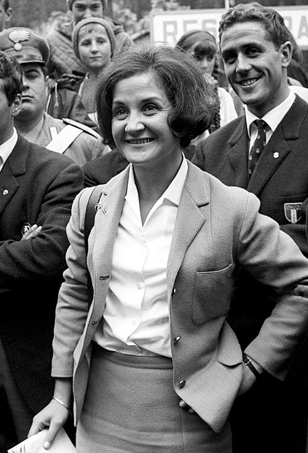 Giustina Demetz smiling at the party held after the Alpine World Ski Championships of Portillo in Chile. Selva di Val Gardena, August 1966